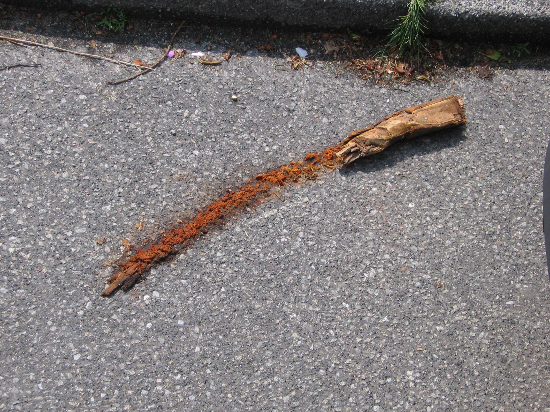 Rotting branch of wood in a street, Kanaleneiland, Utrecht, The Netherlands.